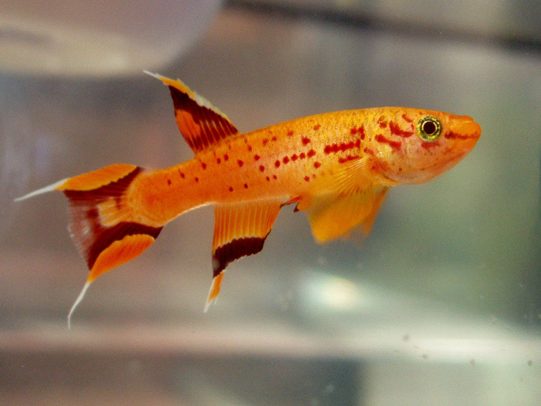 Aphyosemion australe gold